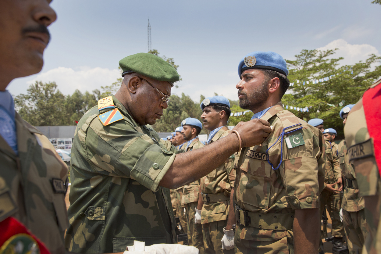 An FARDC colonel fix a medal on pakistani MONUSCO contingents during medal parade of Pak Batt 1 et Pak Avn Unit 2 in Bukavu, the 28th of September 2013.